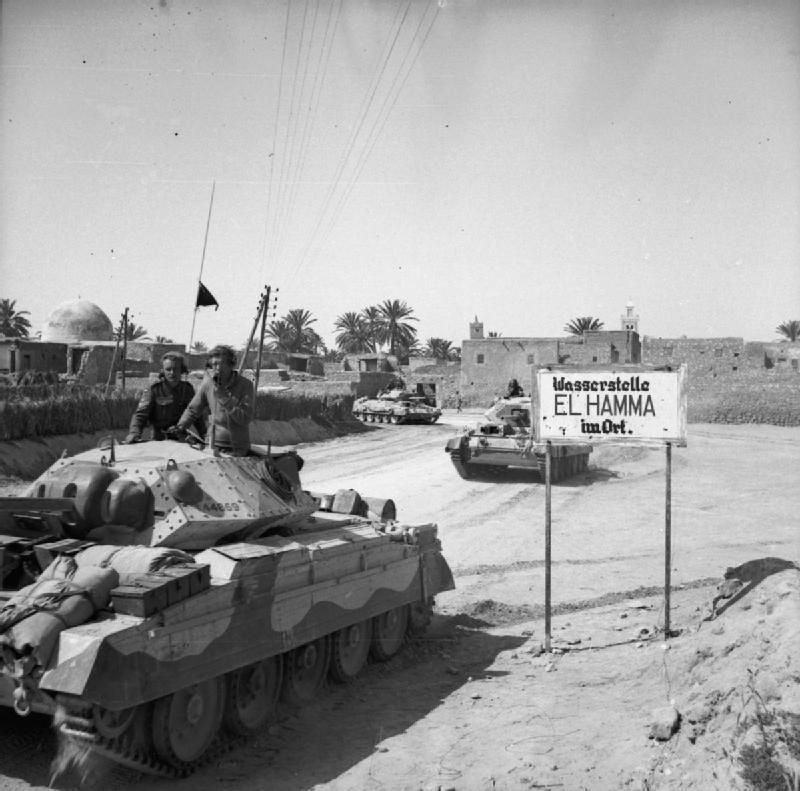 The British Army in Tunisia 1943 Crusader tanks in El Hamma, 29 March 1943.